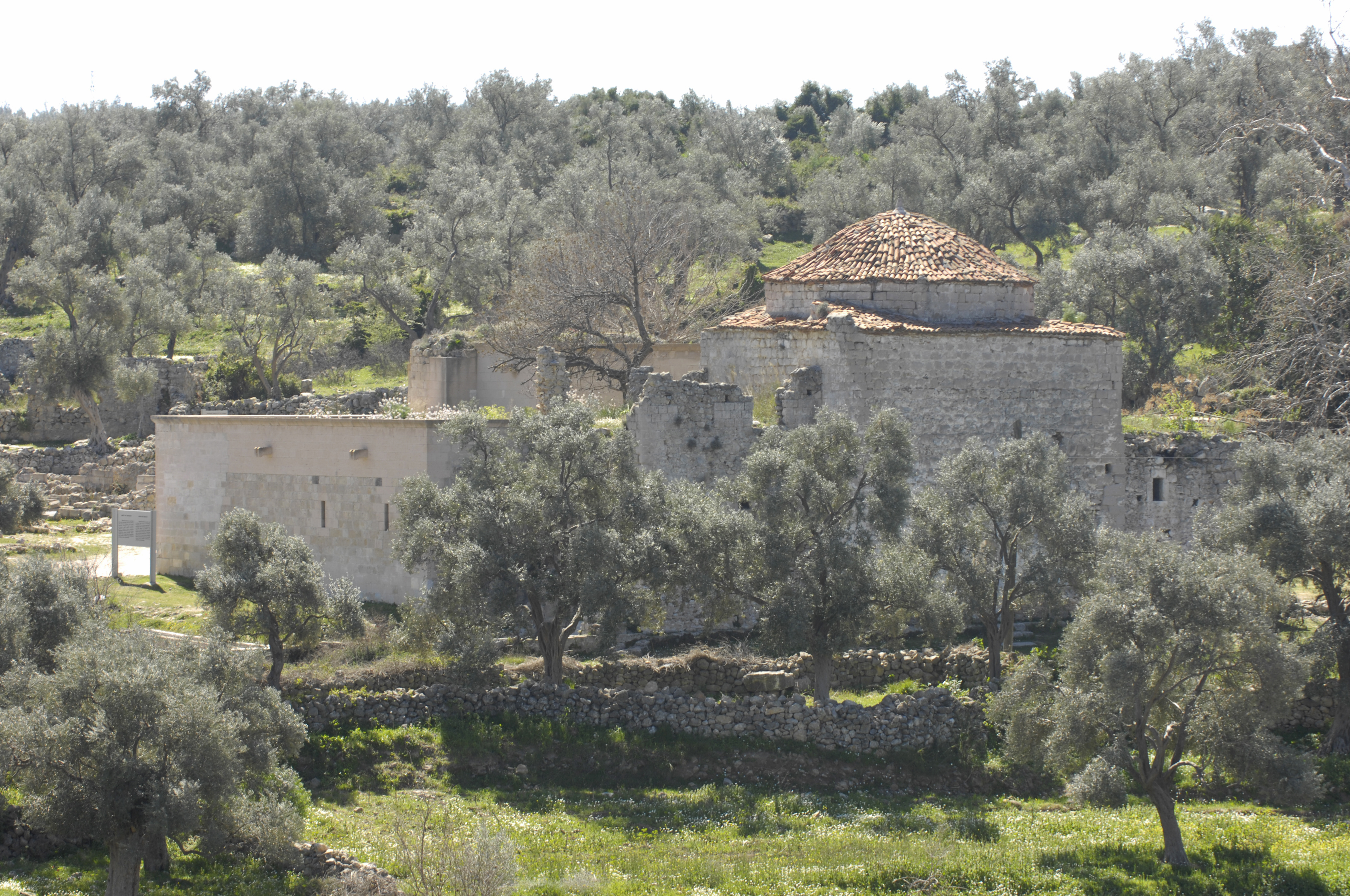 Beçin. The dome you see is that of the Ahmed Gazi medrese.